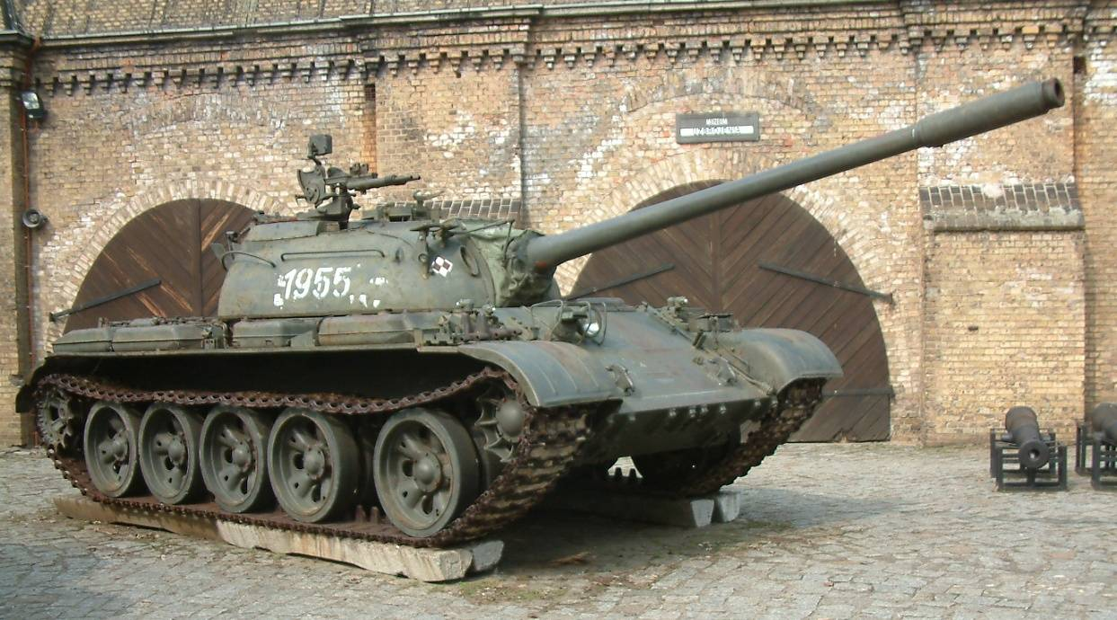 Soviet T-55 in Arms museum in Poznan, Poland.